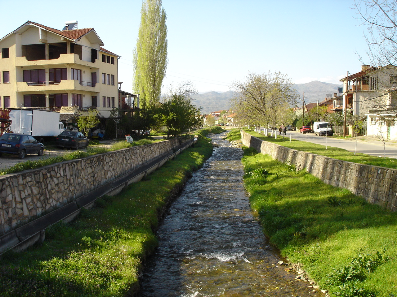 Vinčka River in Vinica, Macedonia